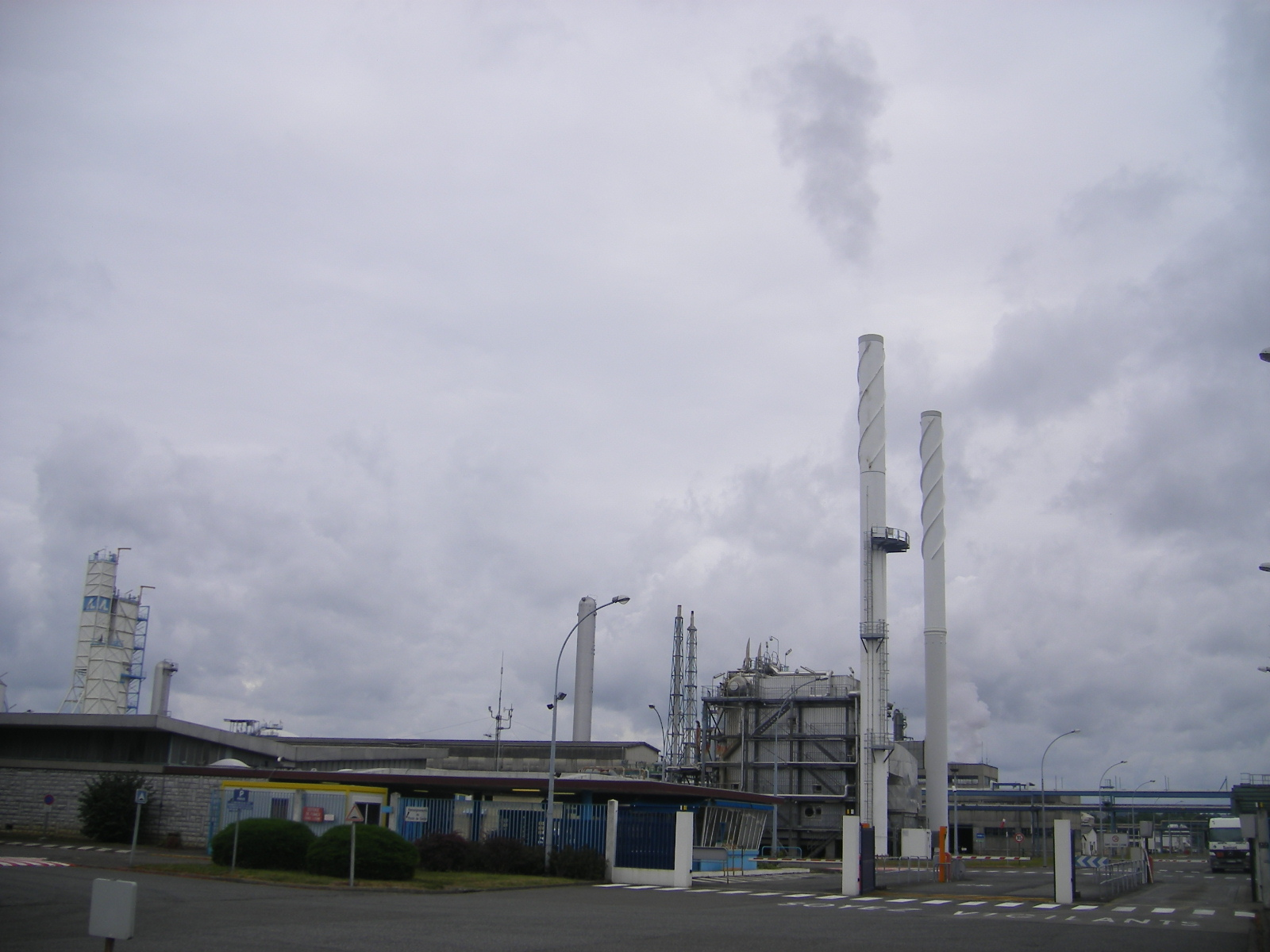 Bésingrand, oil refining factory Pechiney